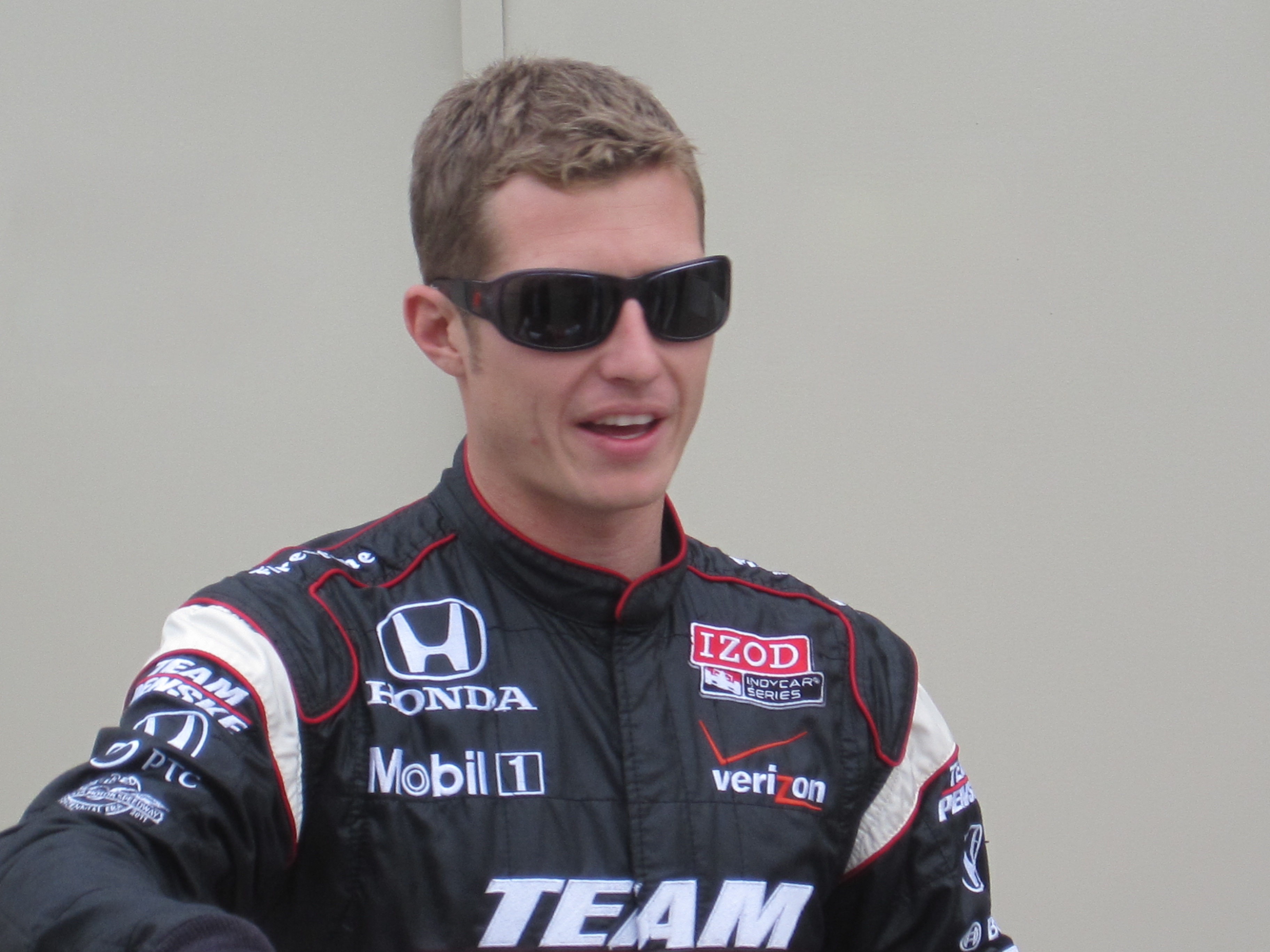 Team Penske Racing's Ryan Briscoe at the Indianapolis Motor Speedway for day 7 of practice (Fast Friday) for the 2010 Indianapolis 500 on Friday, May 21, 2010.